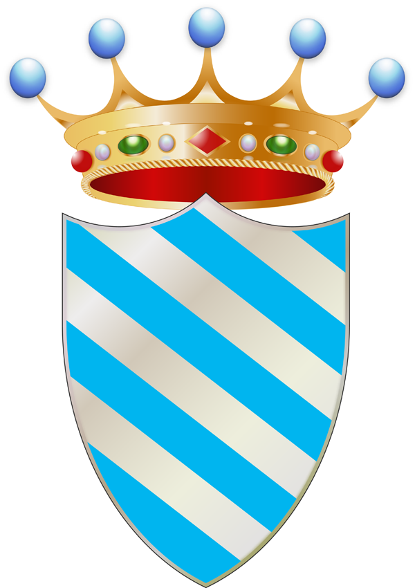 Coat of arms of Bugnara (L'Aquila), Italy